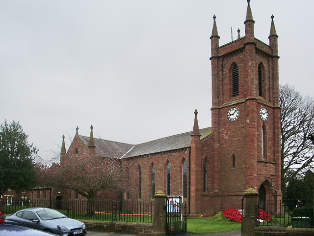 St Michael's parish church, Stanwix, Carlisle, Cumbria, seen from the west